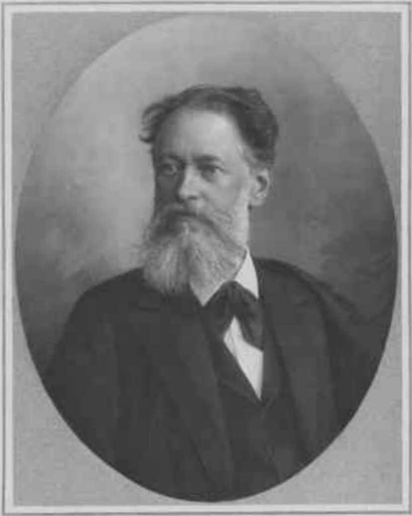 Johann Nepomuk Prix (* 6 May 1836; † 25 February 1894), Austrian politician and Mayor of Vienna